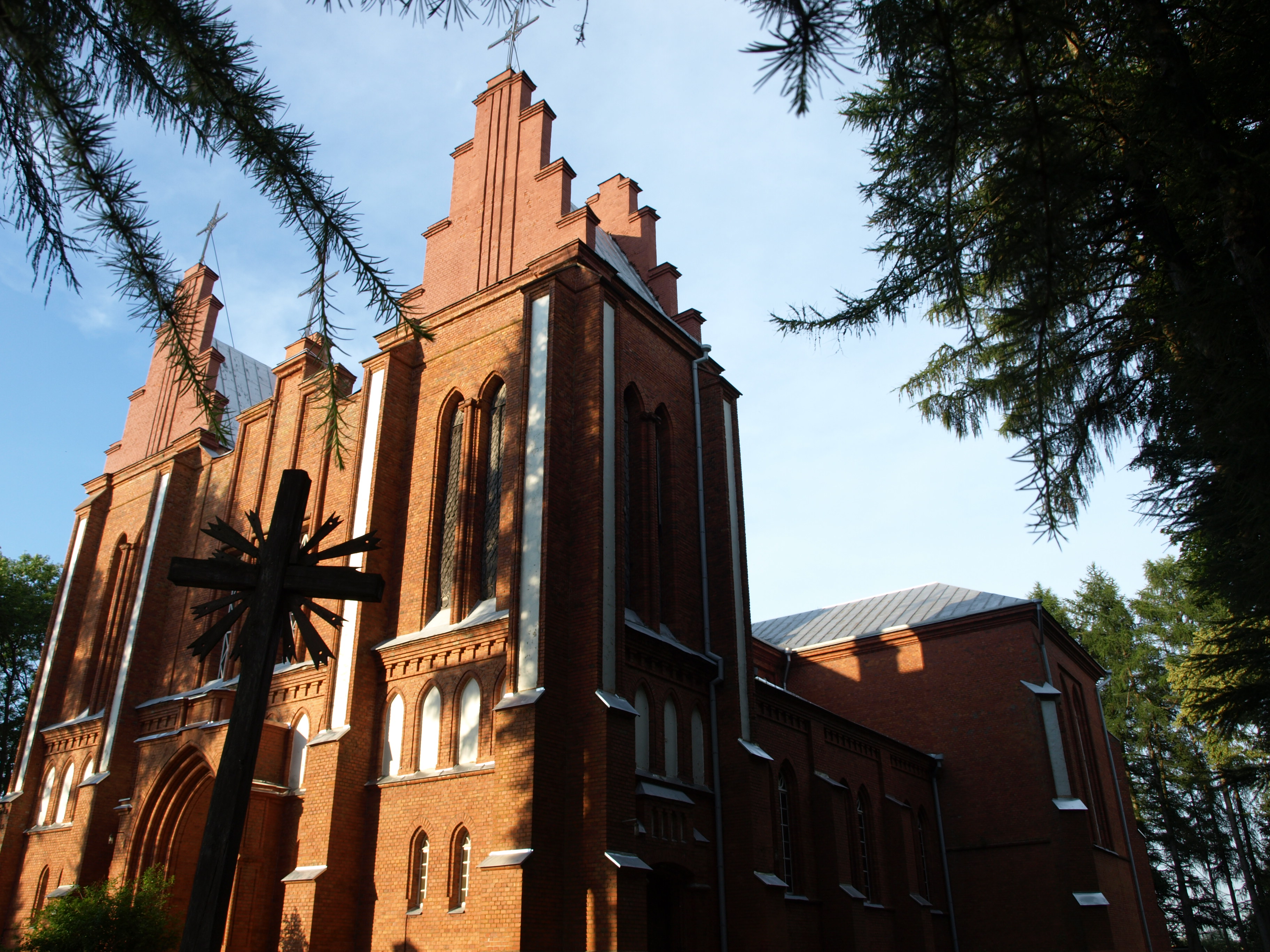 Paberžė church, Vilnius district, Lithuania